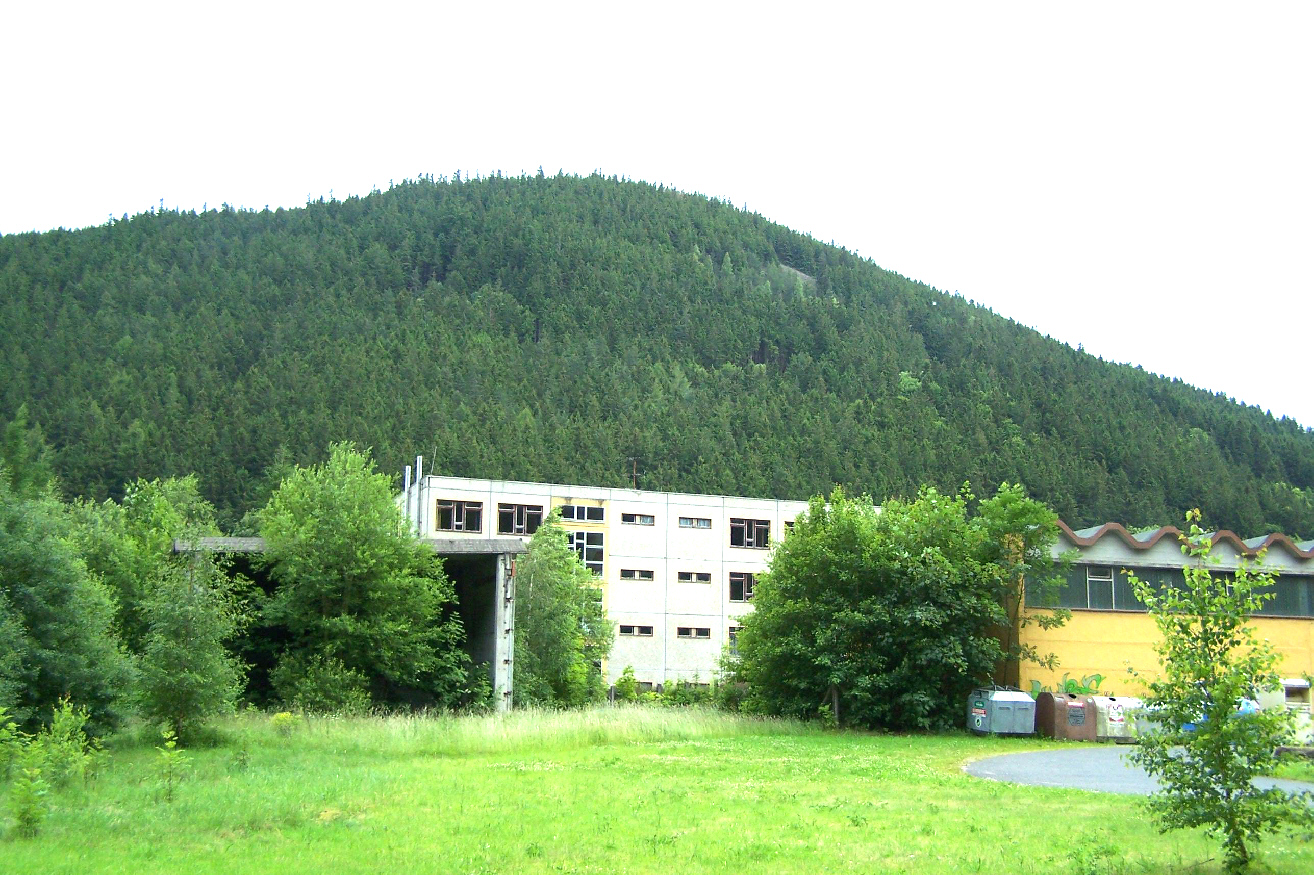 The mount Kienberg.